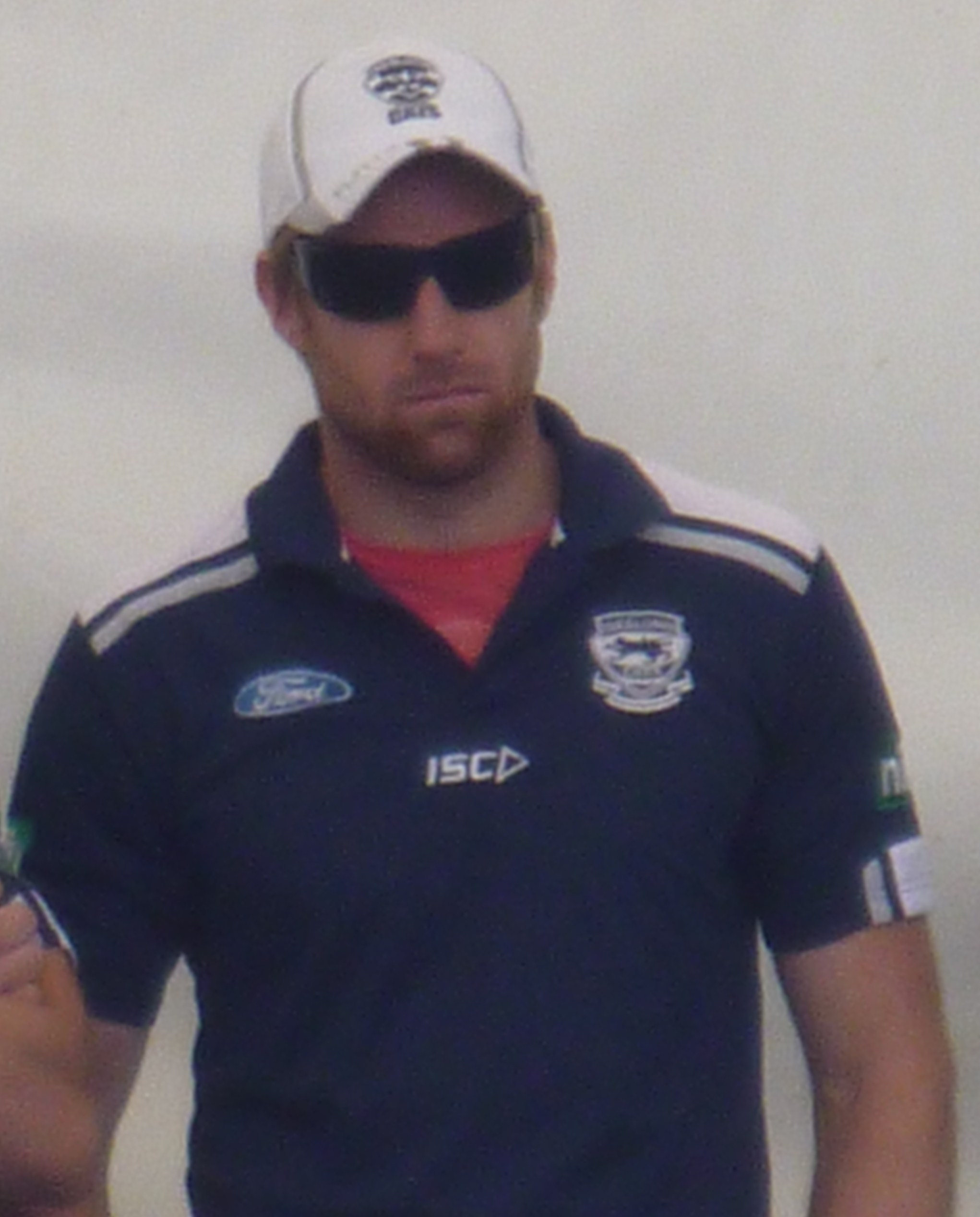 Tom Lonergan at the Geelong Football Club's 2011 AFL Premiership victory parade in Geelong, Victoria, Australia.